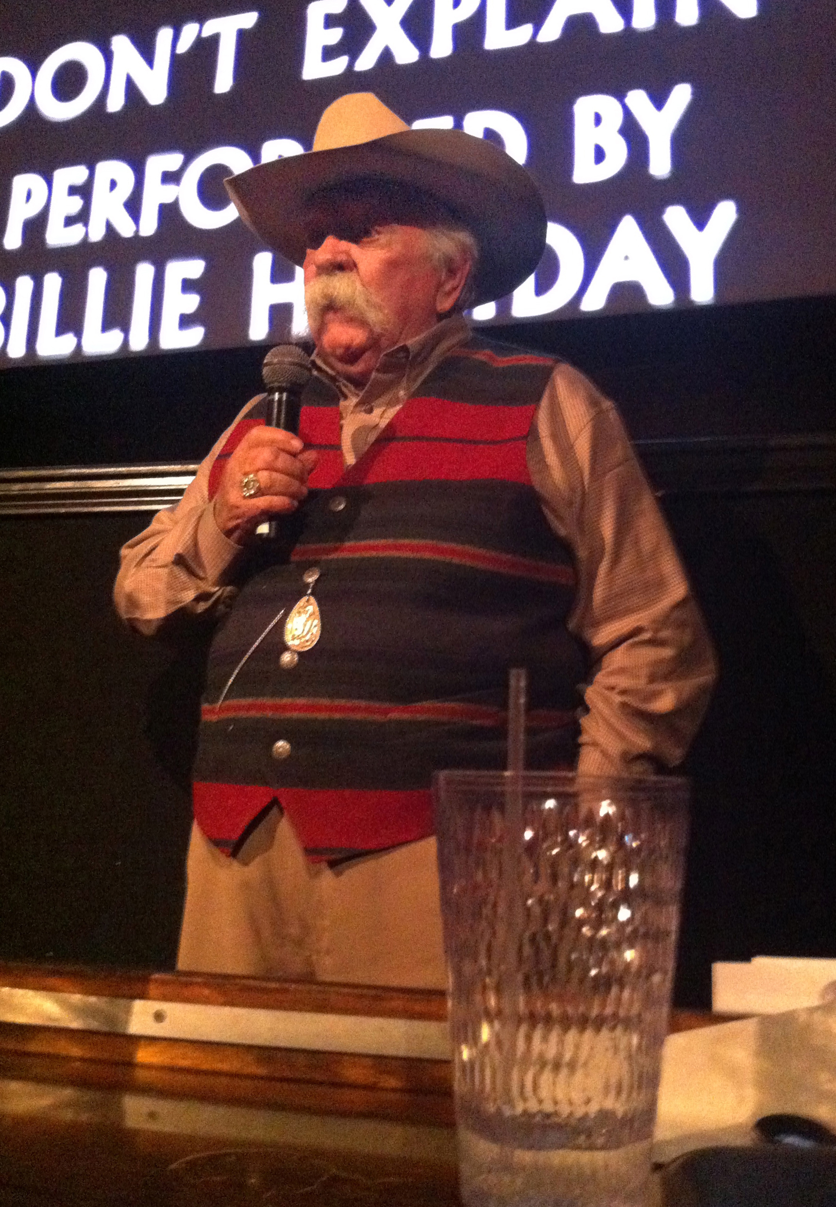 Wilford Brimley on October 22, 2012